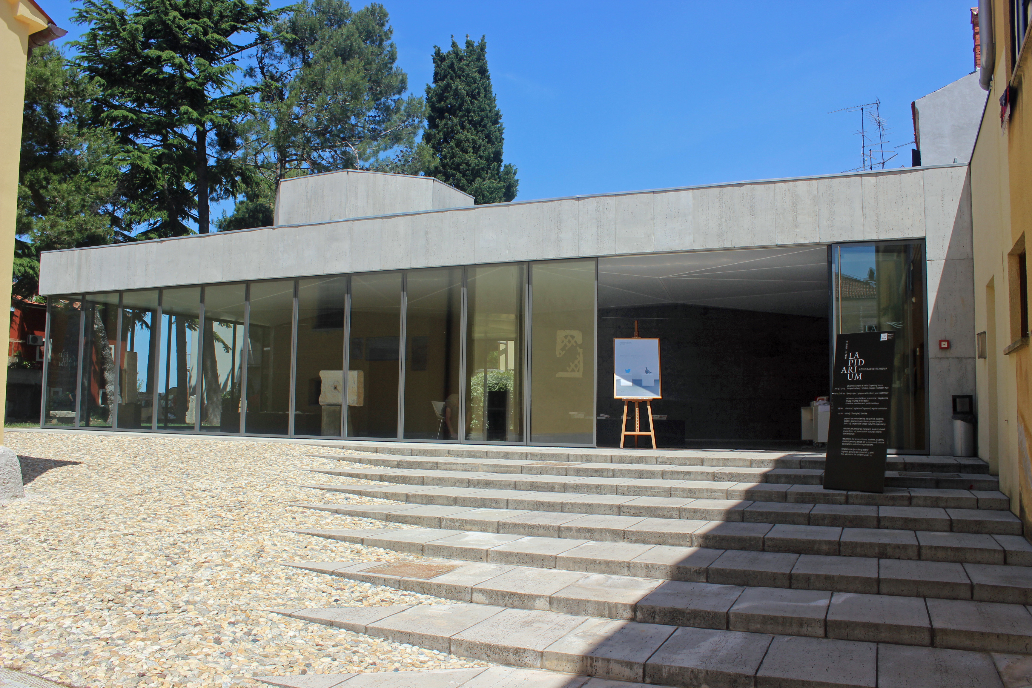 Building of the museum “Lapidarium”, in Novigrad, Croatia